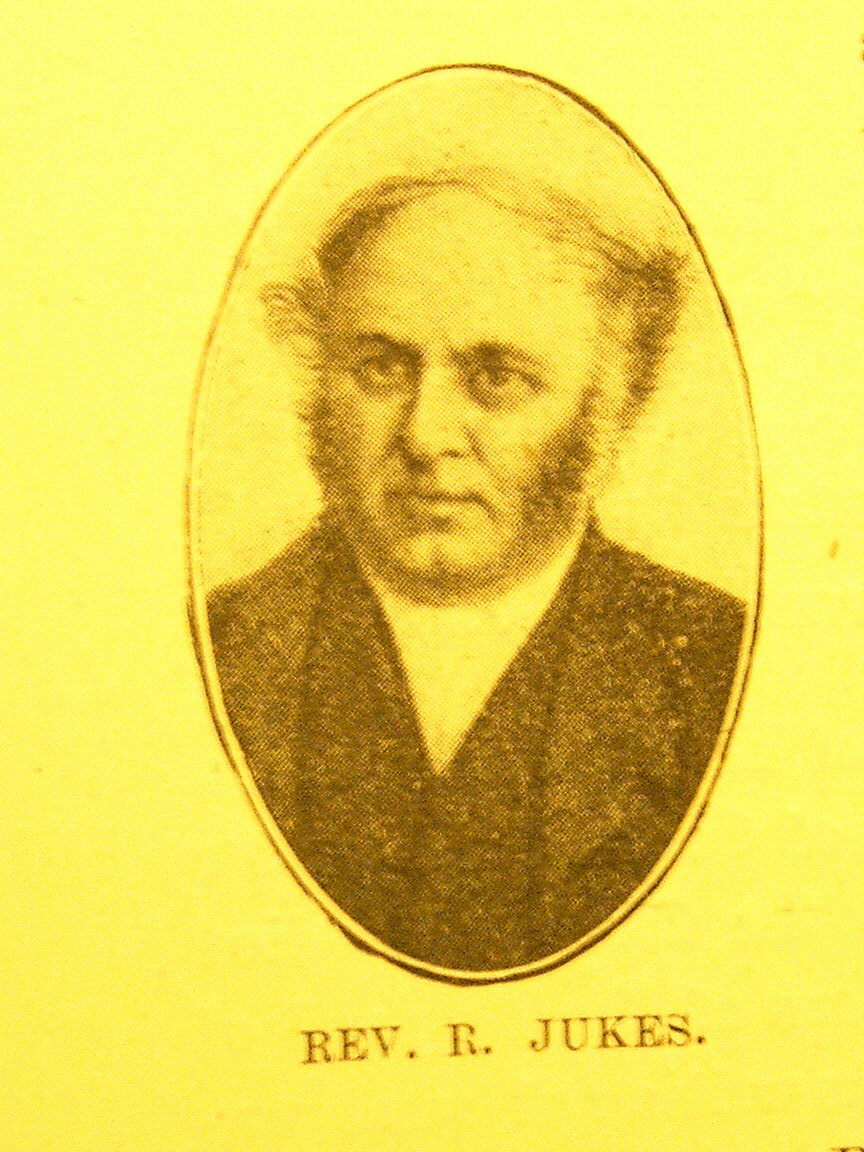 Rev. Richard Jukes, who was a popular 19th century Primitive Methodist Minister and hymn writer.